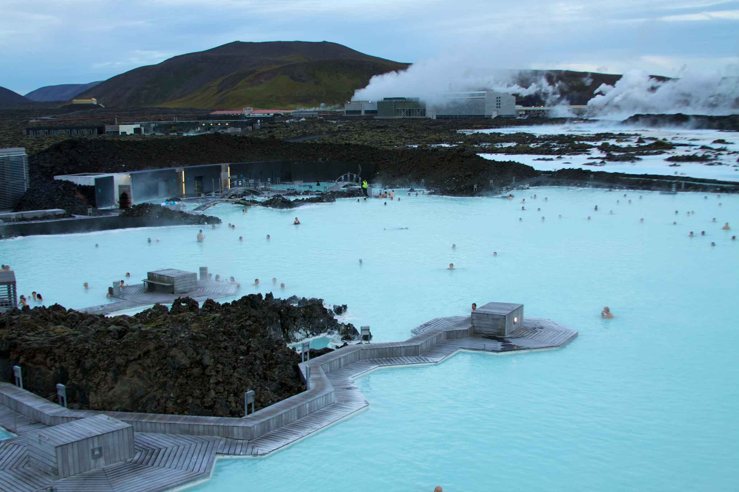 The lovely thermal waters of Iceland's understandably famous Blue Lagoon. The geothermal power plant visible in the back supplies much of the power to Reykjavik, and of course the hot, rejuvinating waters of the Blue Lagoon itself.